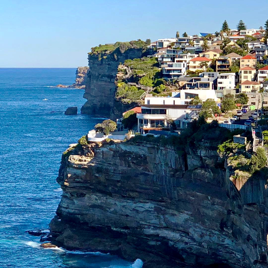 Clifftop homes in Dover Heights, Sydney.